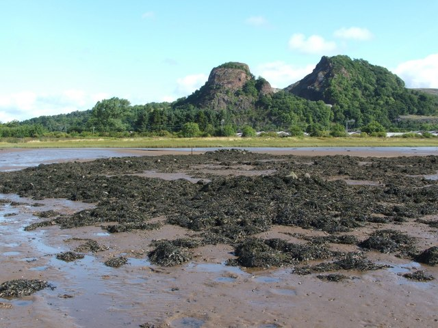 Dumbuck Crannog from the south [See the end note for a summary of the crannog; for more detail, see the main description: 932217.] This photo shows the location of the crannog in relation to nearby features: the railway line (which runs close to the shore, just behind the grassy strip); the old Diamond Power site, whose roofs can be seen to the right; and, in the background, Dumbuck Quarry. As for the Crannog, care is needed to distinguish its original structure from more recent disturbances. For example, at its northern side (in the photo, this is directly below the left-hand peak of Dumbuck Quarry), a seaweed-covered heap of stones can be seen, and there are a few other heaps of stones at the site. These heaps are not part of the ancient structure of the crannog: rather, at some point between the 1898 archaeological dig and the later excavations in the 1990s, someone decided that it would be a good idea to shift some boulders around in order to create duck-shooting hides [see Hale and Sands, in the work cited at the link given in the first paragraph above].